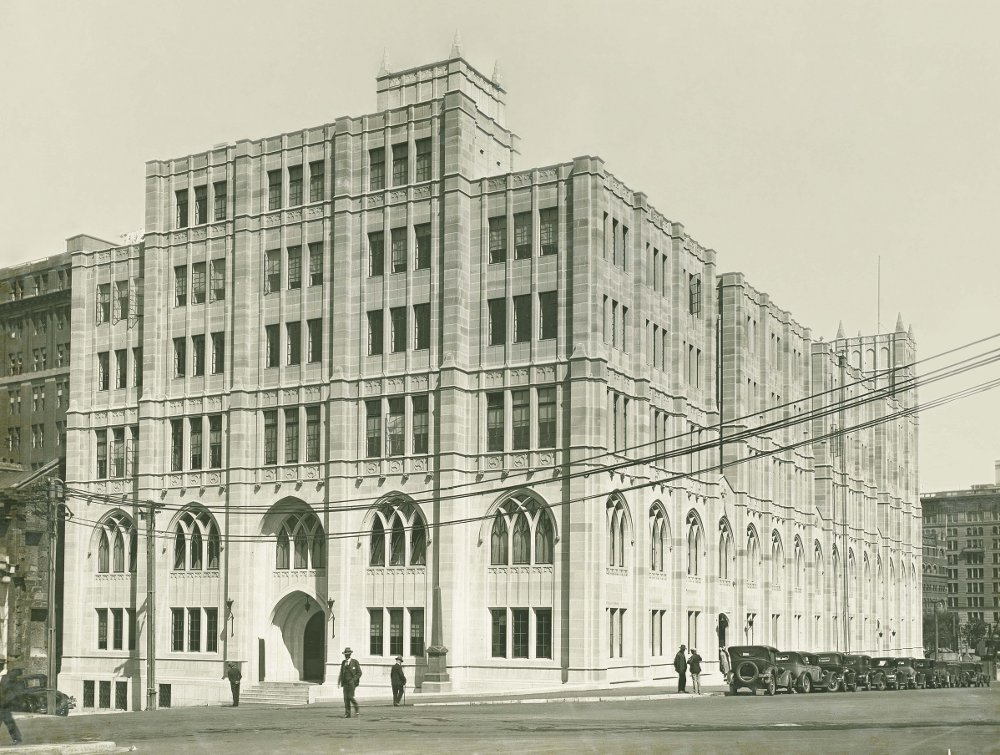 Scots Church (from the Sydney Harbour Bridge Photographic Albums) Dated: 7/9/1931 Digital ID: 12685_a007_a00704_8724000112r Rights: We'd love to hear from you if you use our photos/documents. Many other photos in our collection are available to view and browse on our website using Photo Investigator.